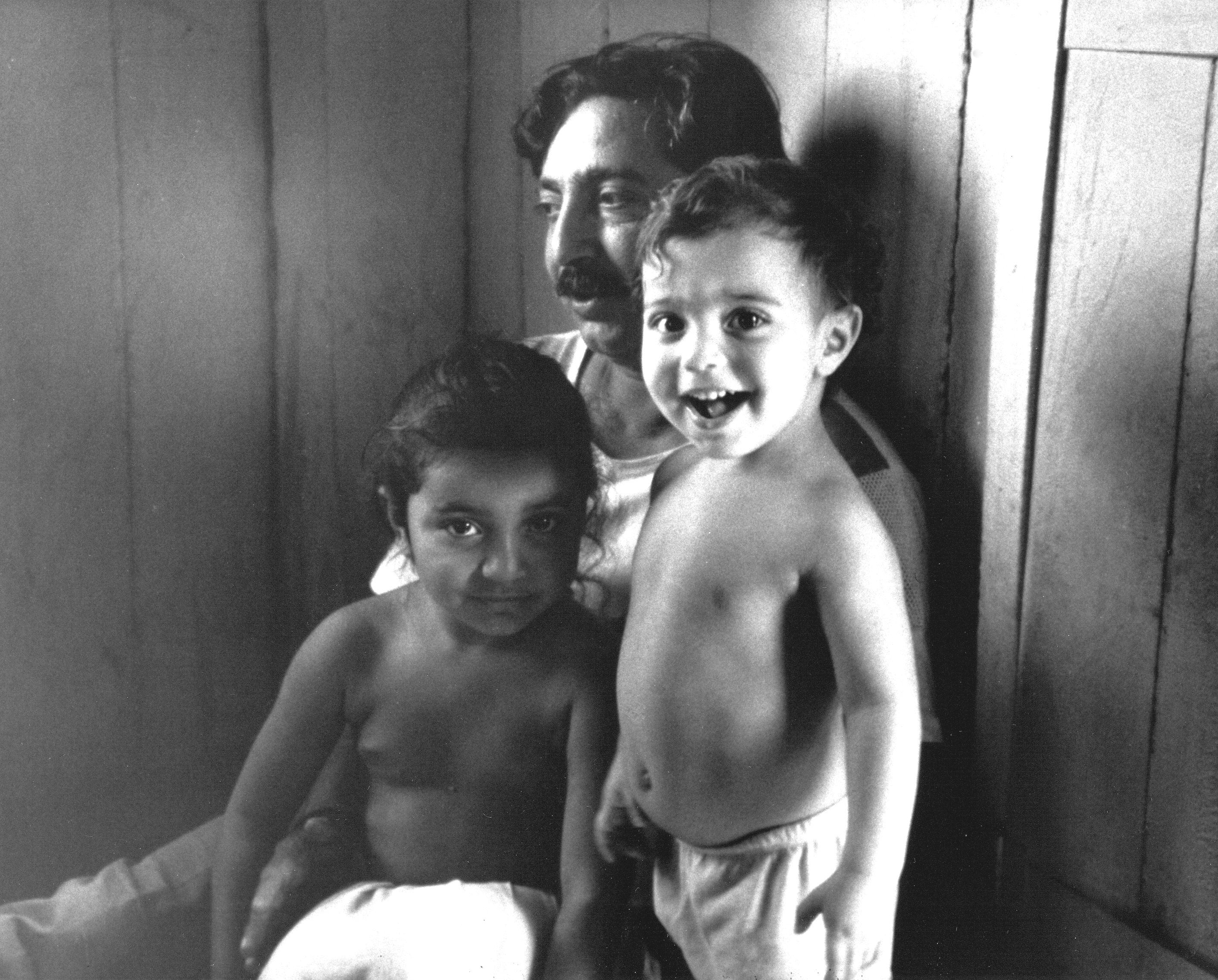 Chico Mendes at his home in Xapuri, Acre, Brazil, with his two young children. Elenira Mendes is on the left, and Sandino Mendes is on the right